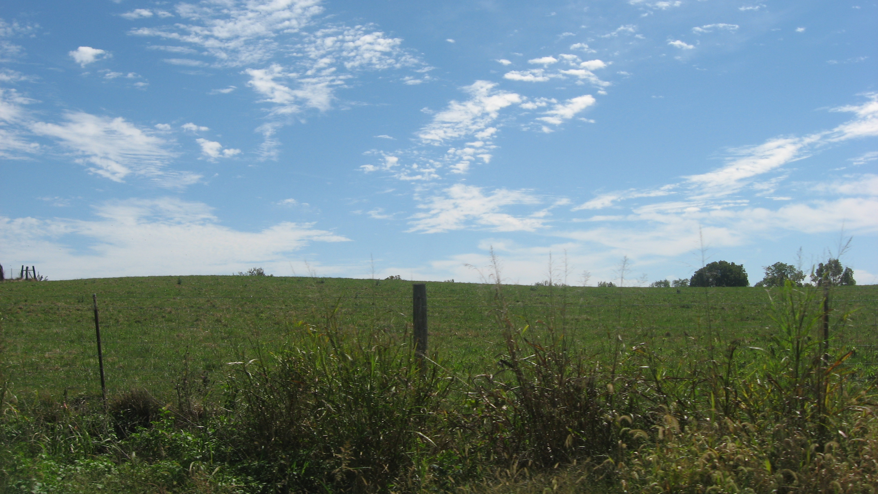 A field on the northern part of the Prather Site, bounded by Salem Noble Road, Charlestown Pike, and State Road 62 between Charlestown and Jeffersonville in Utica Township, Clark County, Indiana, United States. Once a village of the Middle Mississippian culture, it is an important archaeological site, although the portion seen here along Charlestown Pike is substantially less significant (although much more visible from the public right-of-way) than the southern portion of the site.